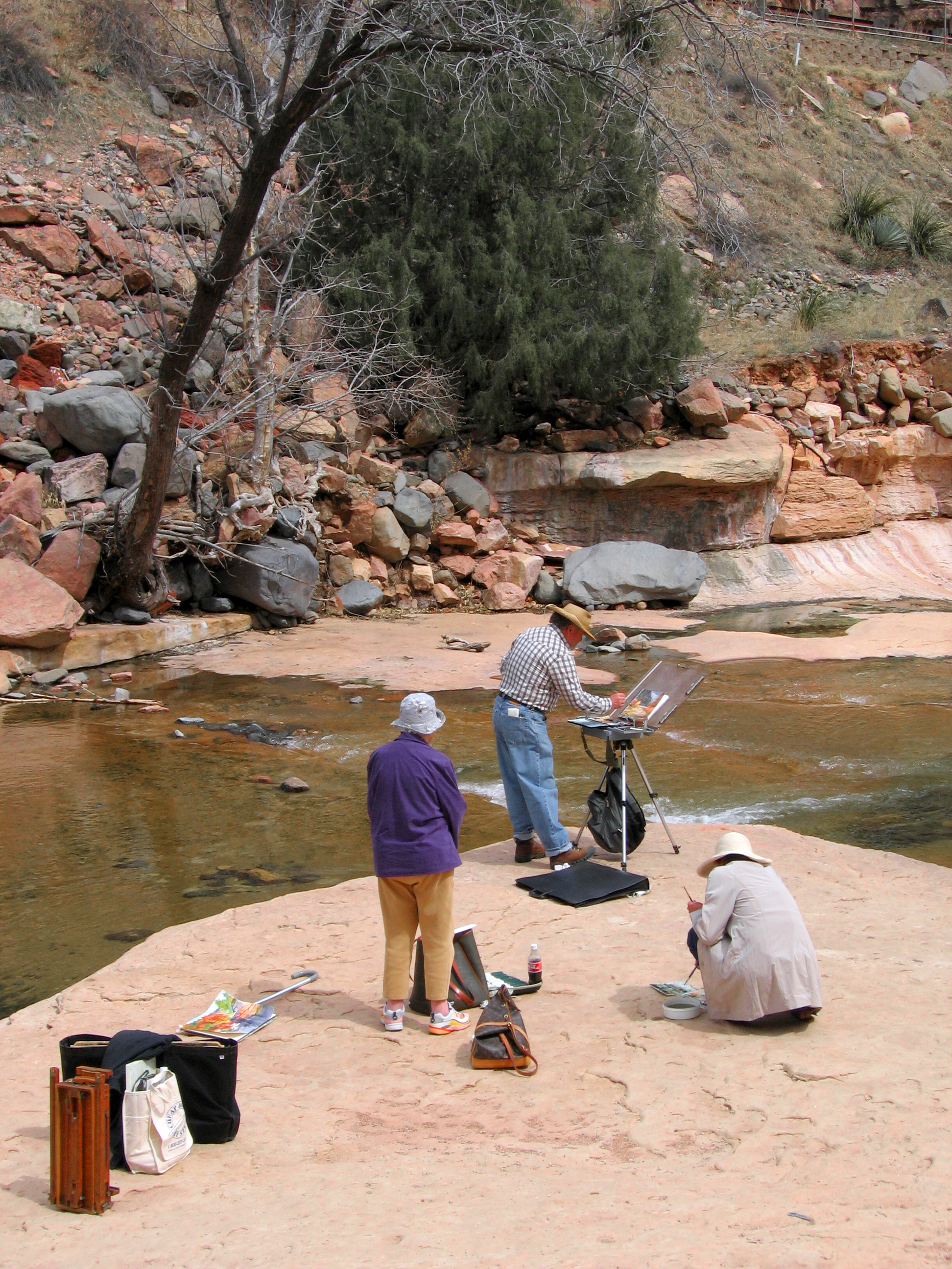 Artists at Slide Rock State Park, Arizona